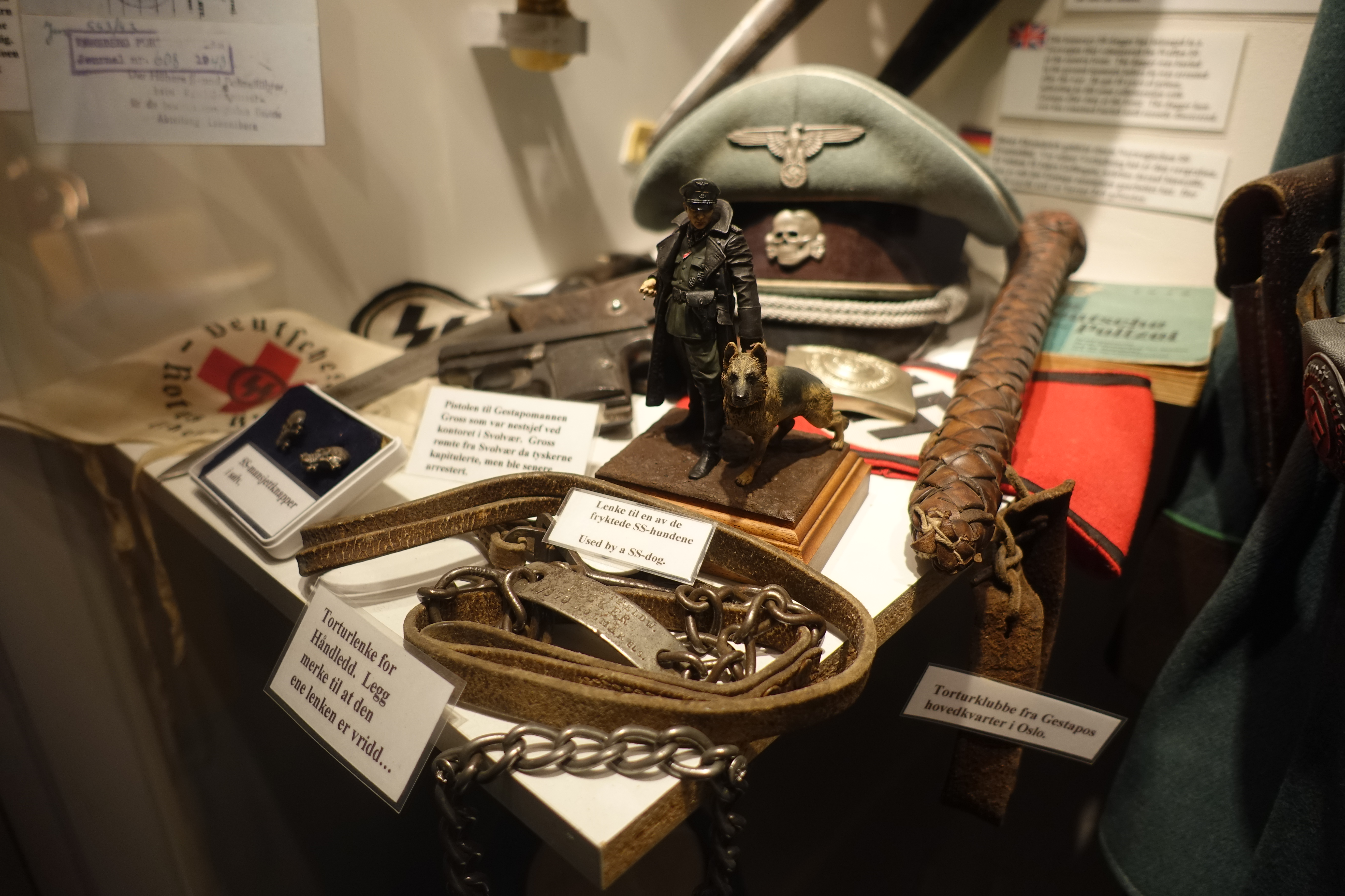 Misc. Nazi Germany SS items on display in "the Gestapo office" at Lofoten War Memorial Museum ("Lofoten Krigsminnemuseum") in Svolvær, Norway: torture chain, dog leash, visor cap with SS skull emblem (Totenkopf), figurine of a SS officer with German Sheperd dog, etc. Photo taken on May 8, 2019 at the Lofoten War Memorial Museum (Lofoten Krigsminnemuseum) in Svolvær, Norway. The museum exhibits uniforms, militaria, memorabilia, smaller items, etc. related to World War II, the German occupation of Norway 1940 – 1945, and the Third Reich era. Reichsdienstflagge, Fehmer’s cap, daggers, whip, SS skull cap, swastika armband, Feldgendarm, etc. Reichsdienstflagge, Fehmer’s cap, daggers, whip, SS skull cap, flagpole top, Gestapo figurine, etc. Reichsdienstflagge, Fehmer’s cap, daggers, whip, SS skull cap, flagpole top, Gestapo figurine, Feldgendarm, etc. SS skull cap, whip, belt buckle, etc. SS skull cap, whip, belt buckle,etc. German WW2 Police Feldgendarm (Stahlhelm etc.), Swastika flag, SS caps, etc.